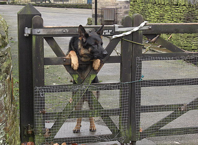 Beware of the poseur Guard dog at Bull Hill Farm, The Banks.